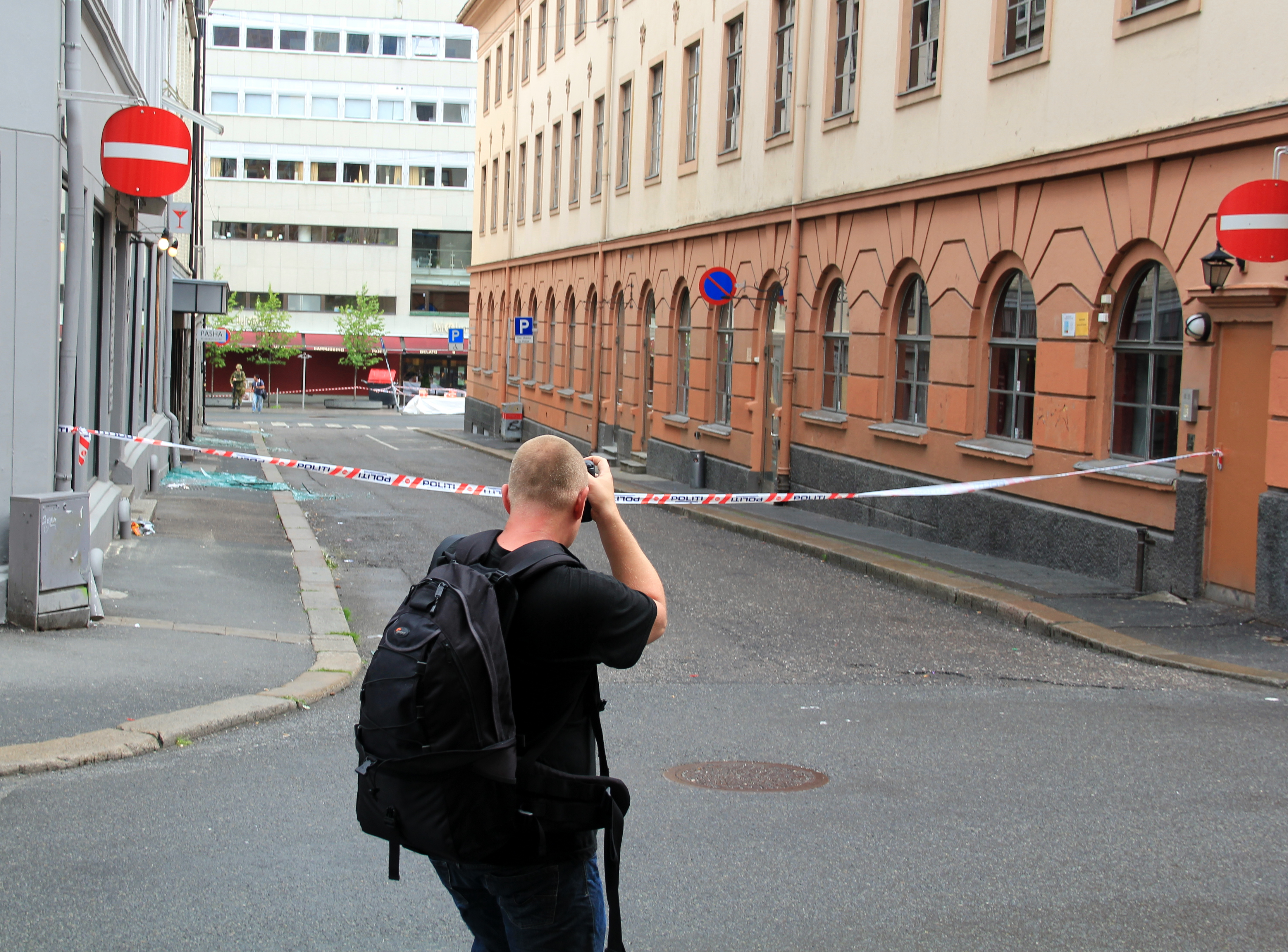 Man taking pivtures of Badstugata in Oslo after the 2011 bomb